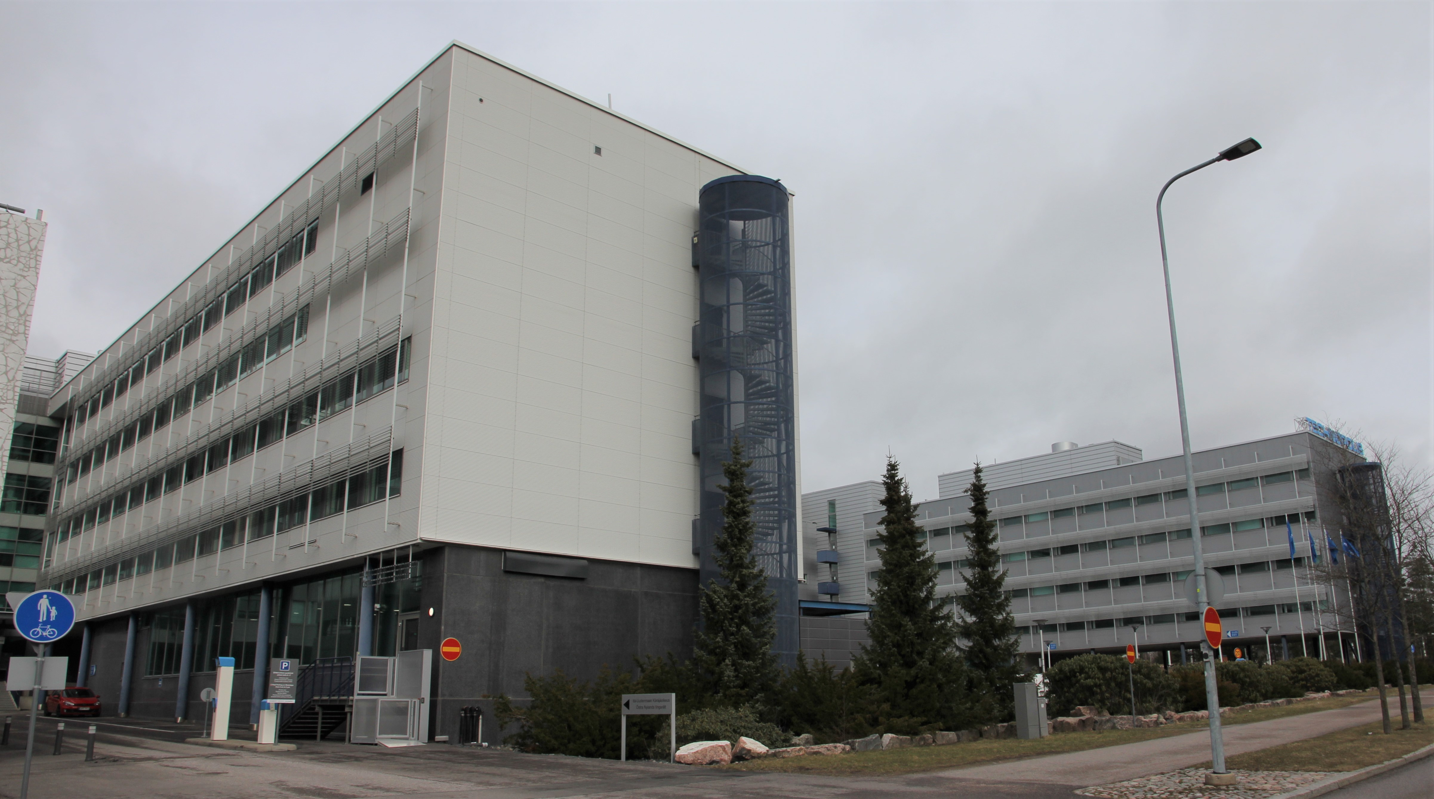 Building of Itä-Uusimaa district court. This is temporal location since March 2020 (until new courthouse is constructed). Address: Teknobulevardi 3-5 E, which is part of Veromies district of Vantaa.